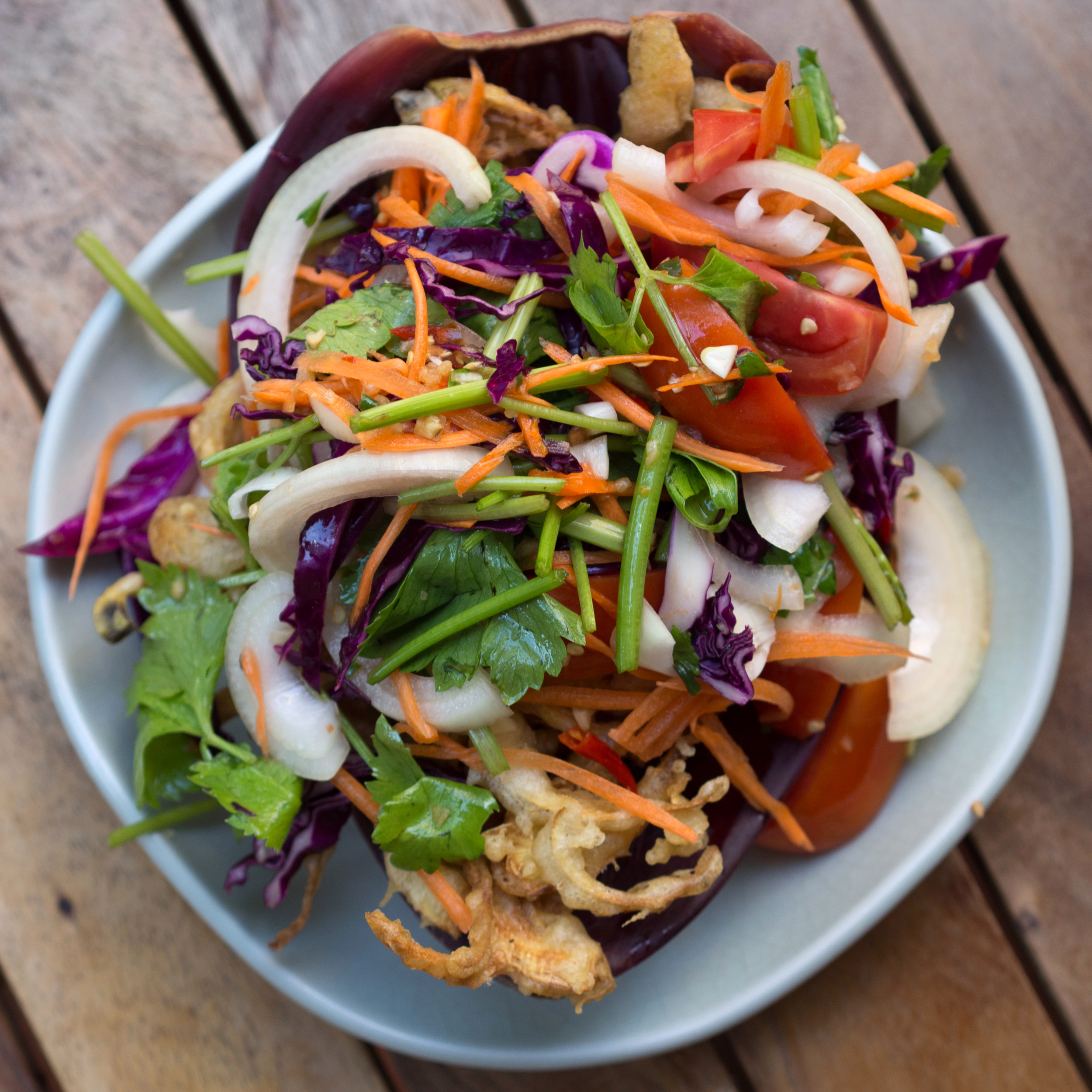 Yam huapli thot (Thai script: ยำหัวปลีทอด) is a spicy Thai "yam"-style salad with fritters of deep-fried, sliced banana blossom as its main ingredient. This was served at a vegetarian restaurant in Chiang Mai.